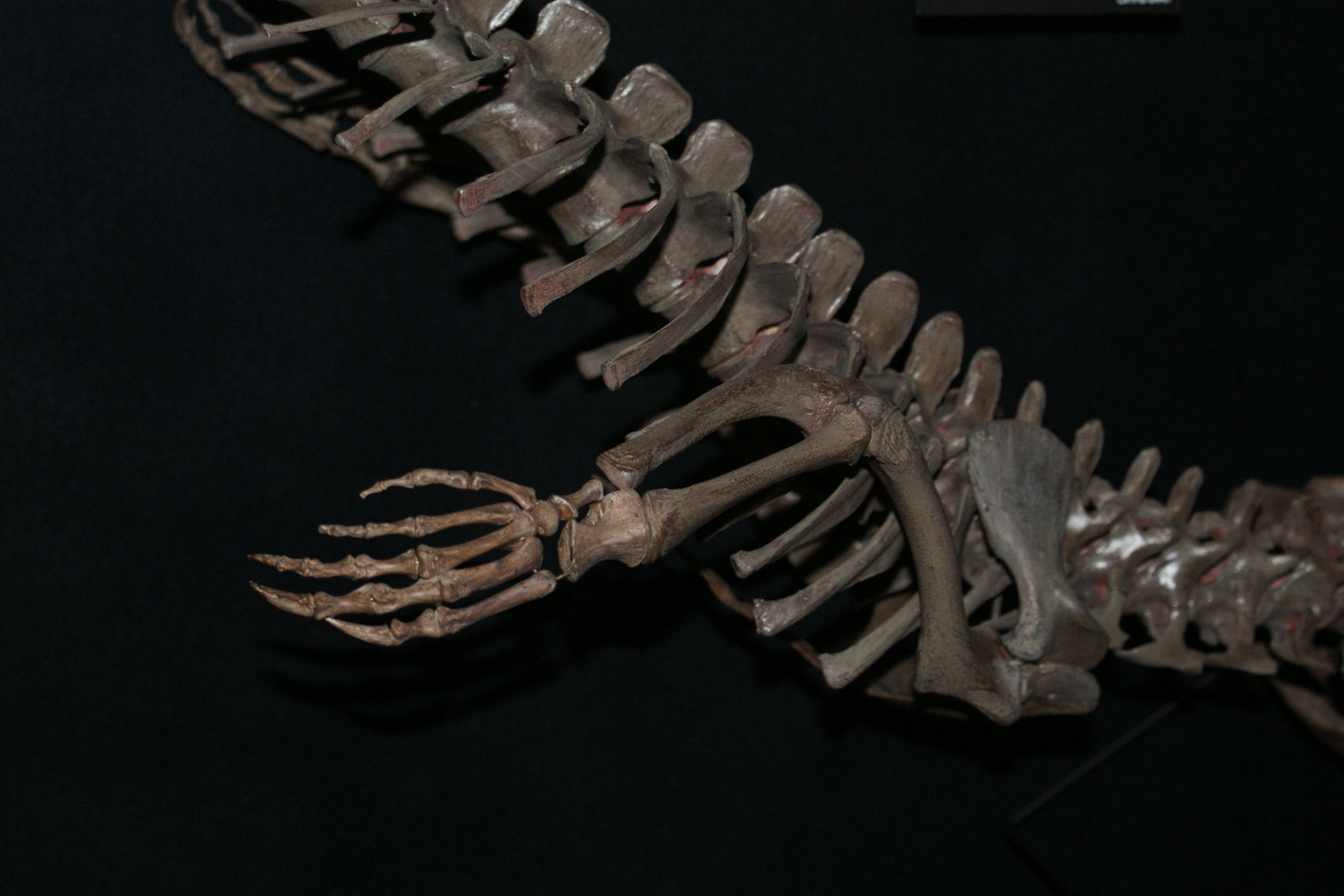 Florida Museum of Natural History Fossil Hall at the University of Florida